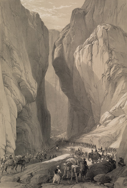 A historical sketch of Bolan Pass, Balochistan, Pakistan. Caption: "Entrance to the Bolan Pass from Dadur."